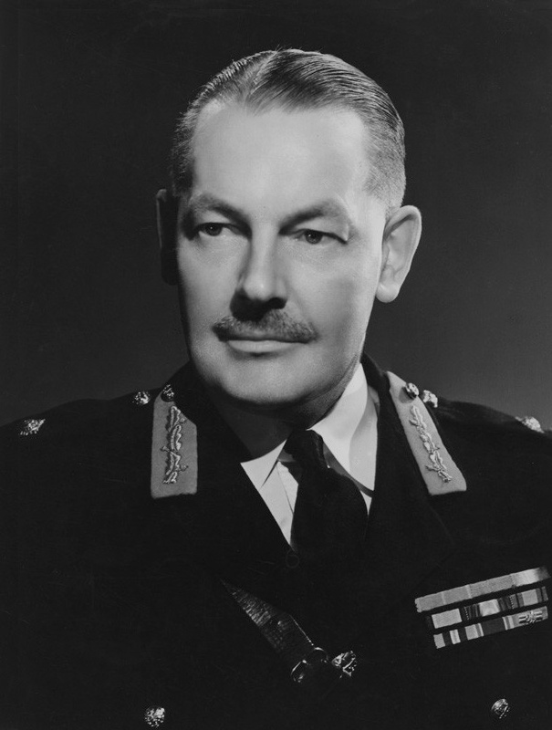 Portrait of General Sir Leslie Hollis